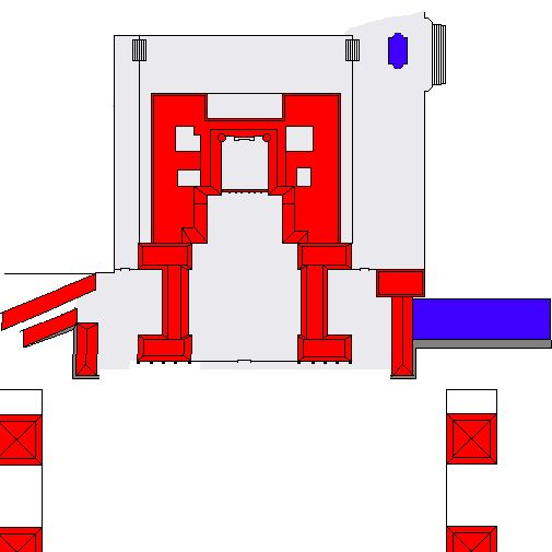 Versailles with the "envelope", the wings on either side of the corps de logis. This was how Versailles might have looked in 1674. The building history is not clear to historians. Many documents have dissapeared. We have to guess and combine pictures.